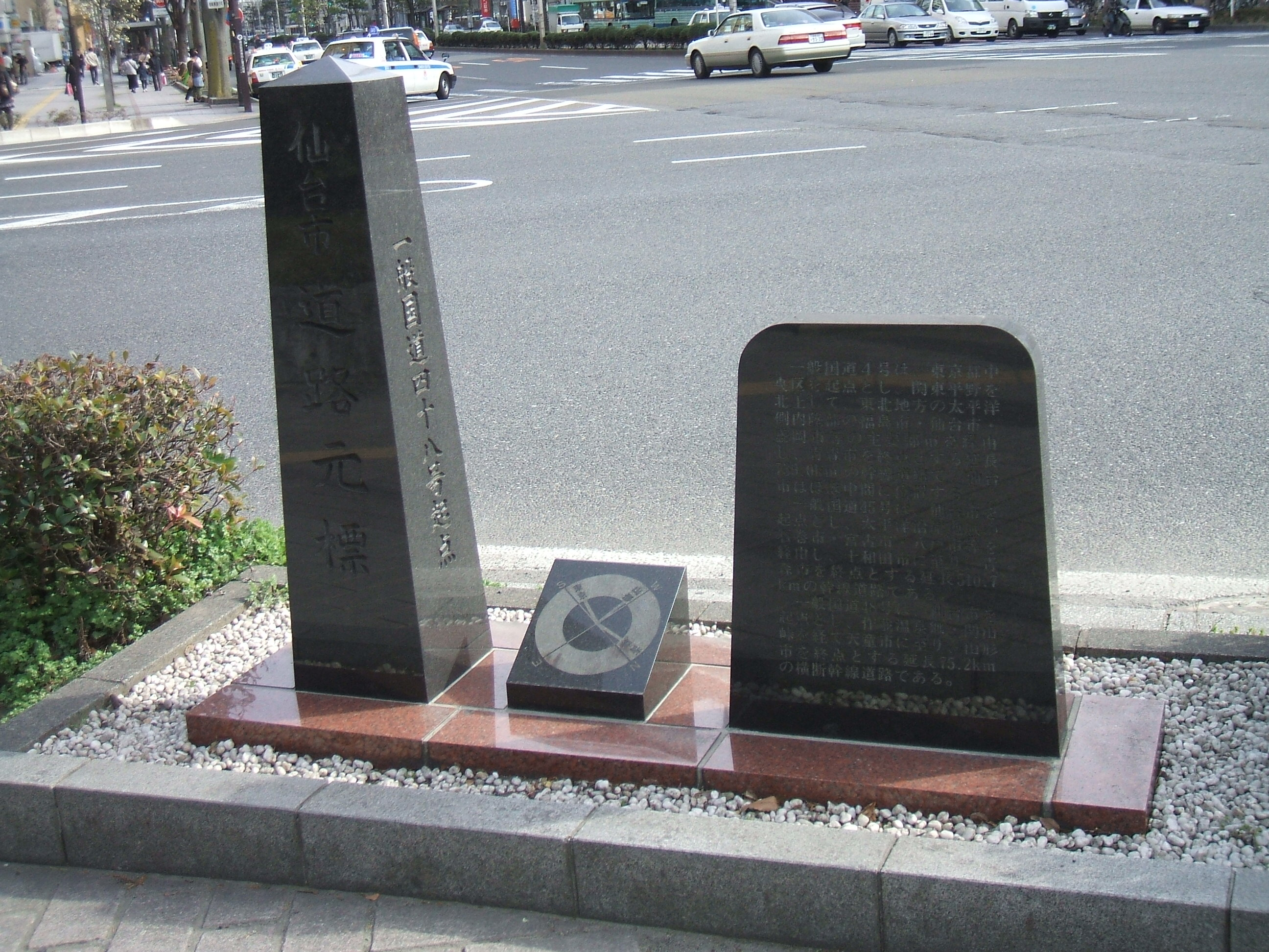 This is Sendai City's Douro-Genpyo.